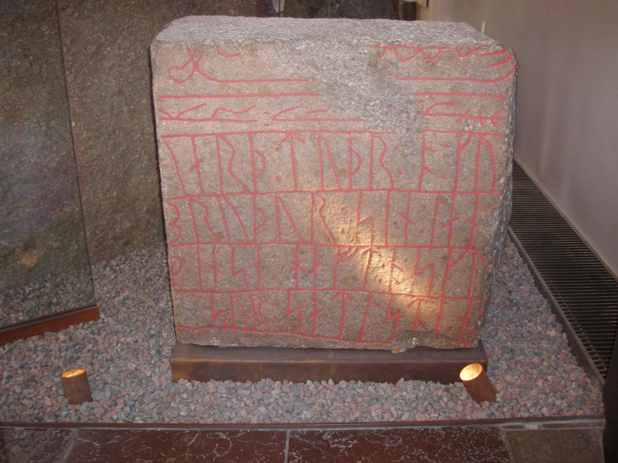 The Sønder Kirkeby runestone from Falster, Denmark. Located in the National Museum of Copenhagen, Denmark.